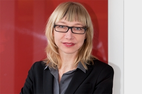 A portrait photo of Prof. Sabine Pfeiffer.